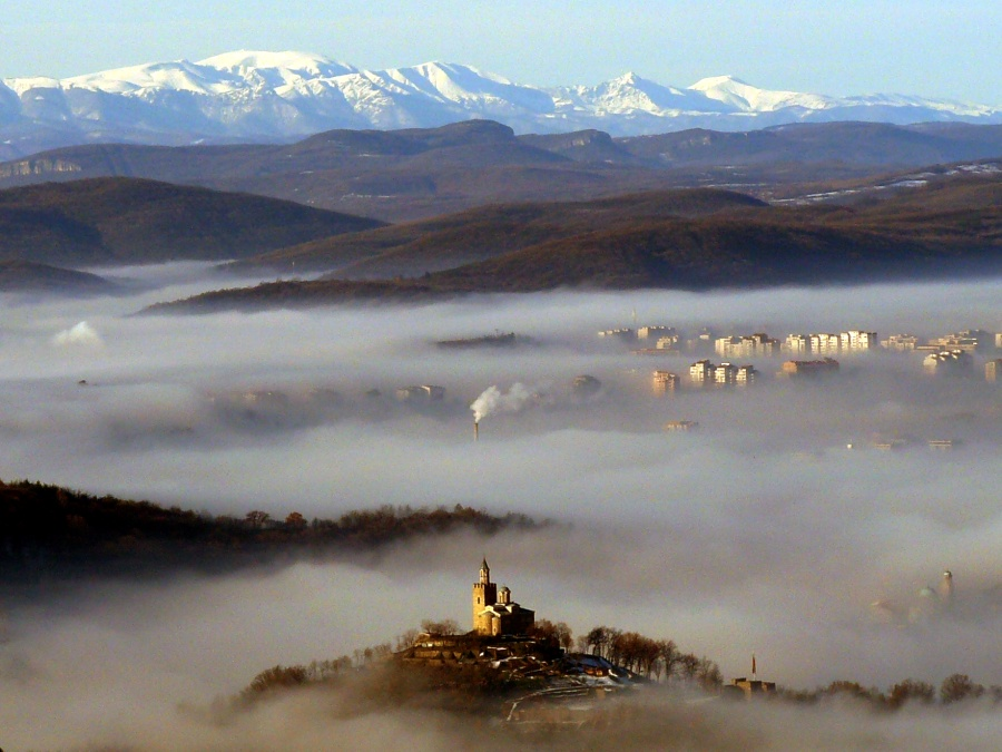 Tsarevets and Stara Planina as seen from the village of Arbanassi.